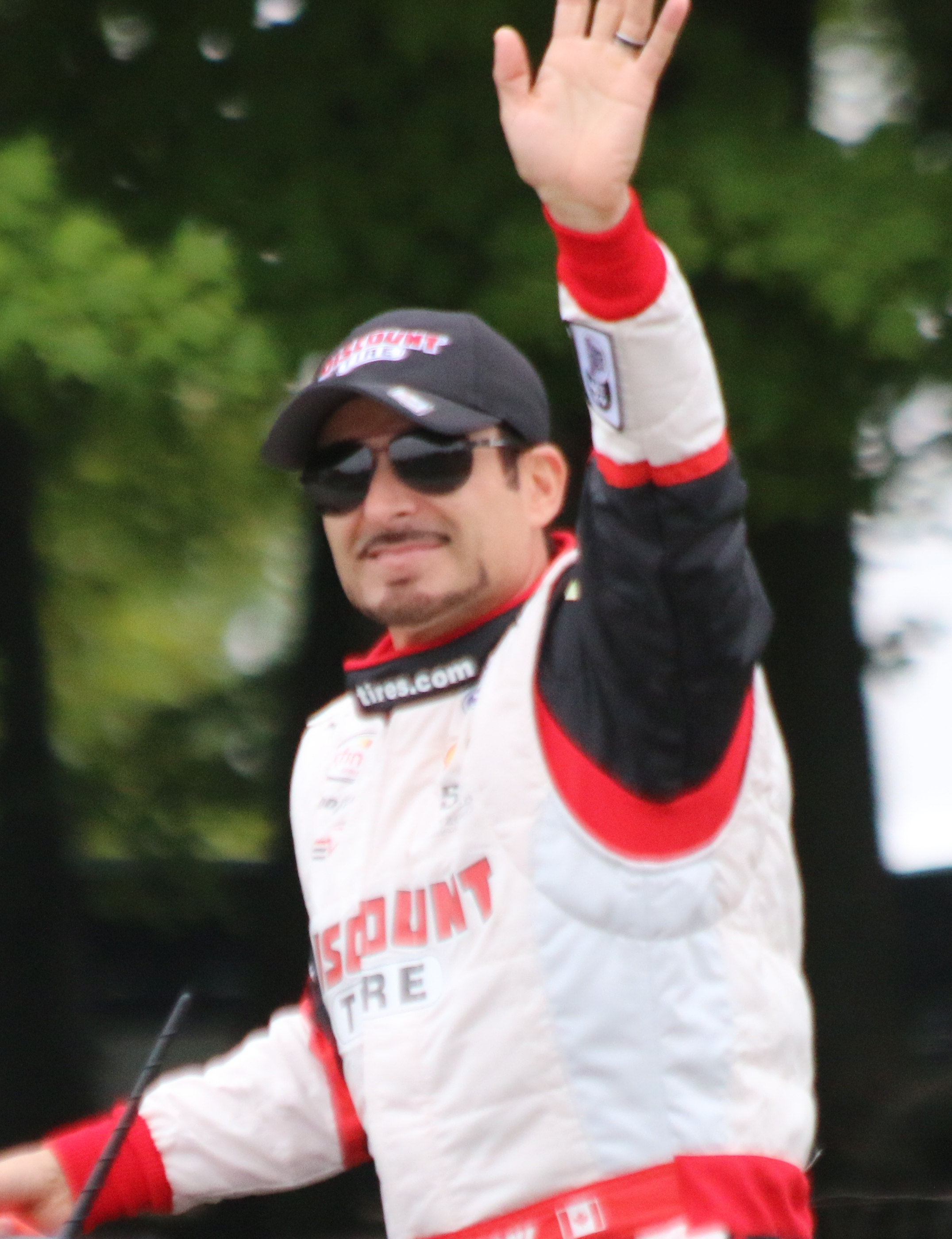 NASCAR driver Alex Tagliani at the 2016 Road America 180.